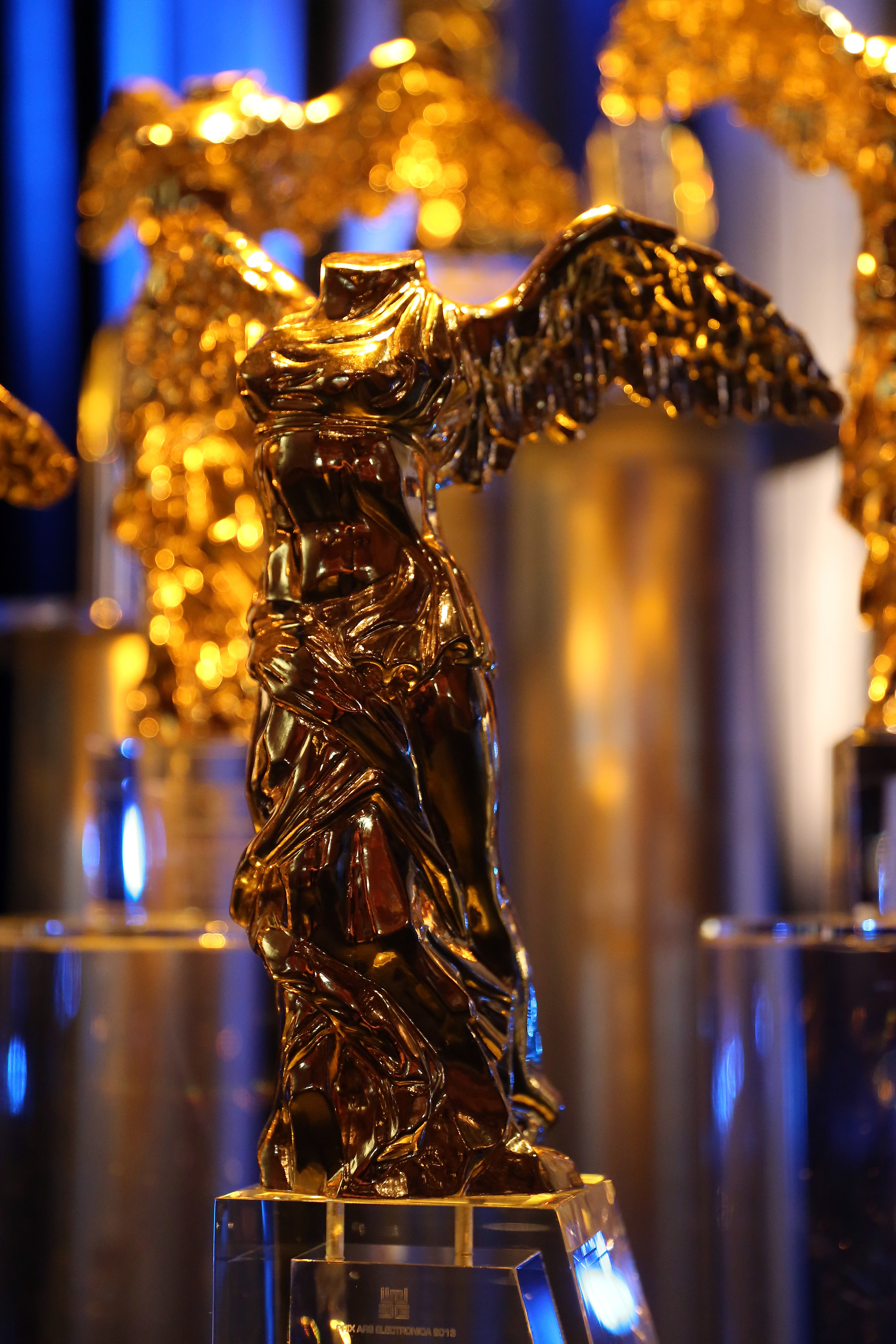 Prix Ars Electronica 2013 at Brucknerhaus, Linz, Upper Austria.